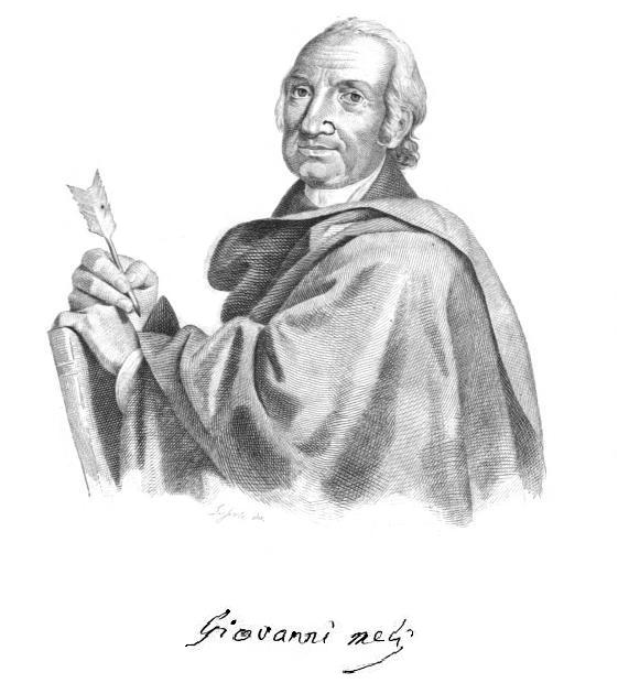 (1740-1815) in Palermo,Italy - he was a Sicilian poet and good playwright